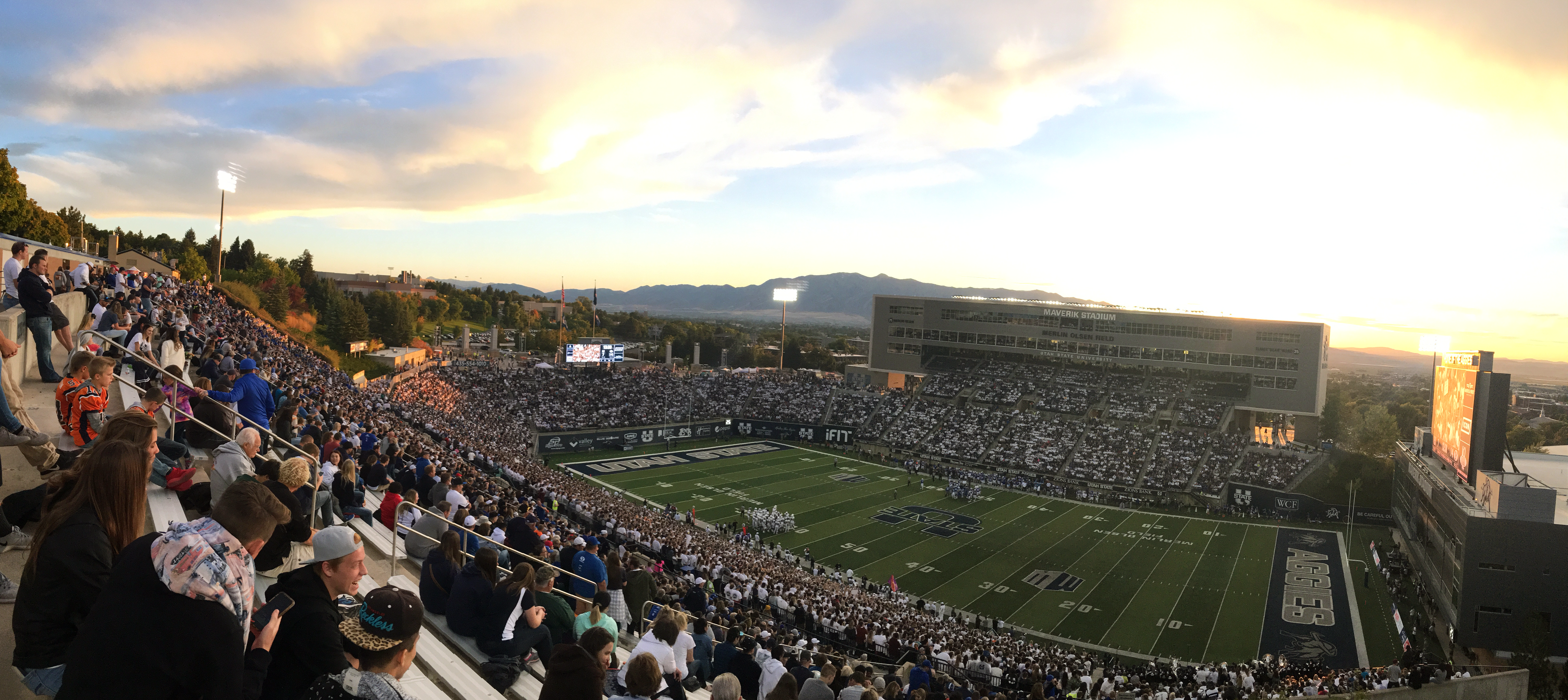 This photo was taken during the Utah State vs. Brigham Young football game on Friday, September 29 with an iPhone 6s Plus.